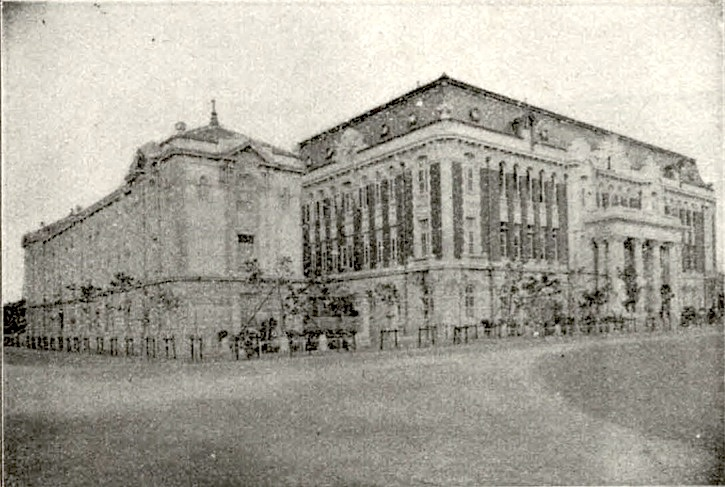 總督府土木部